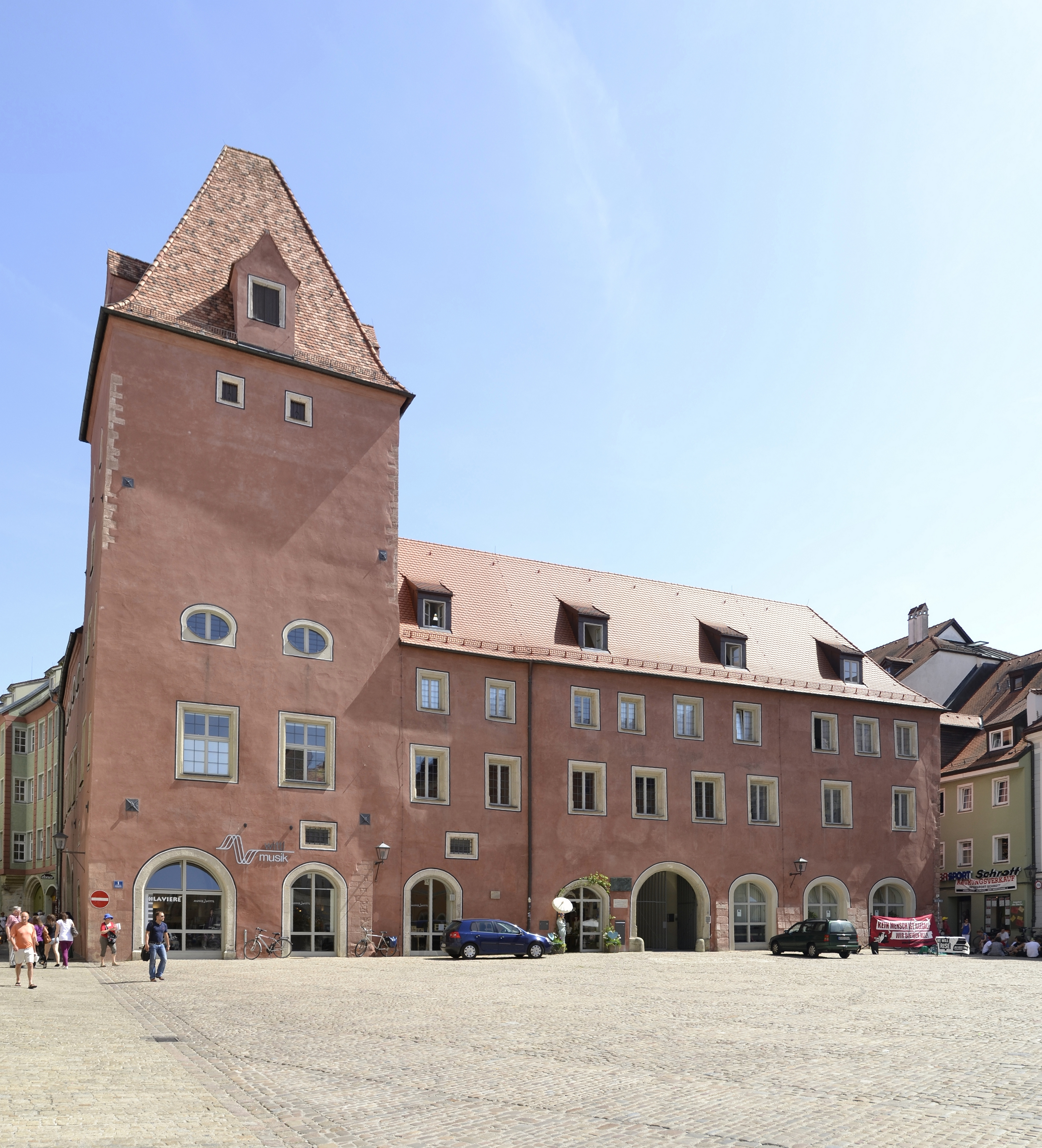 The Neue Waag at the Haidplatz in Regensburg, Bavaria.